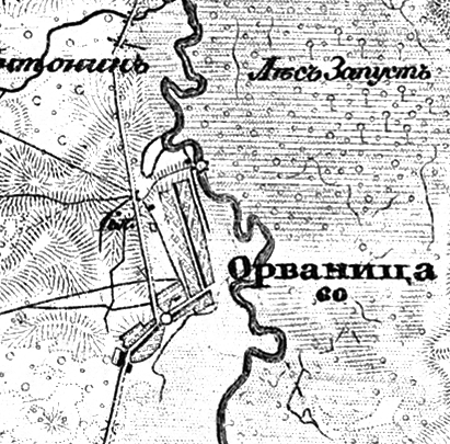 Orvianytsia on the map "Военно-топографическая карта Российской Империи" (known as "Schubert's map"), XX 5, 1866-1887 (issued in 1913).